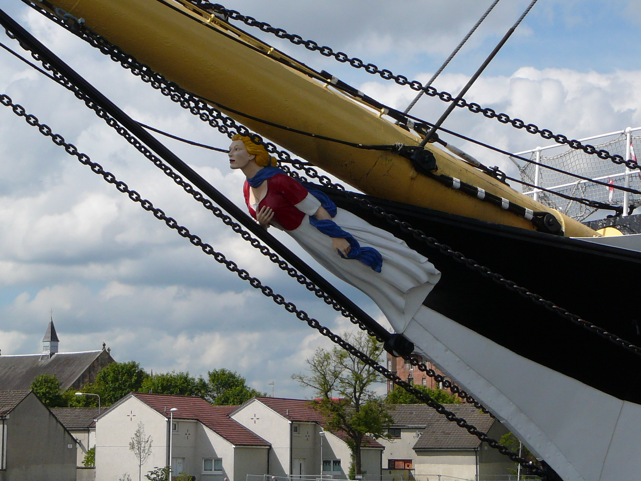 The Glenlee (ship) figurehead, known as "Mary Doll".